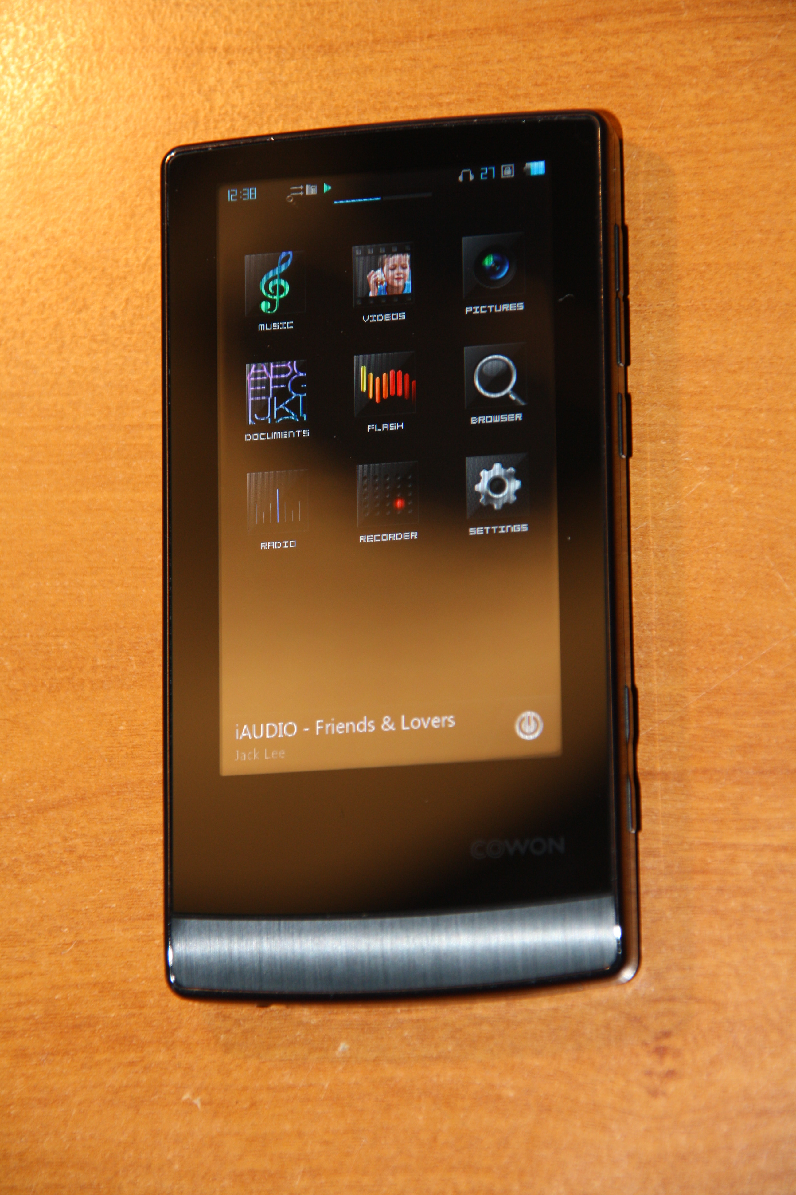 MP3 player Cowon J3, front side.